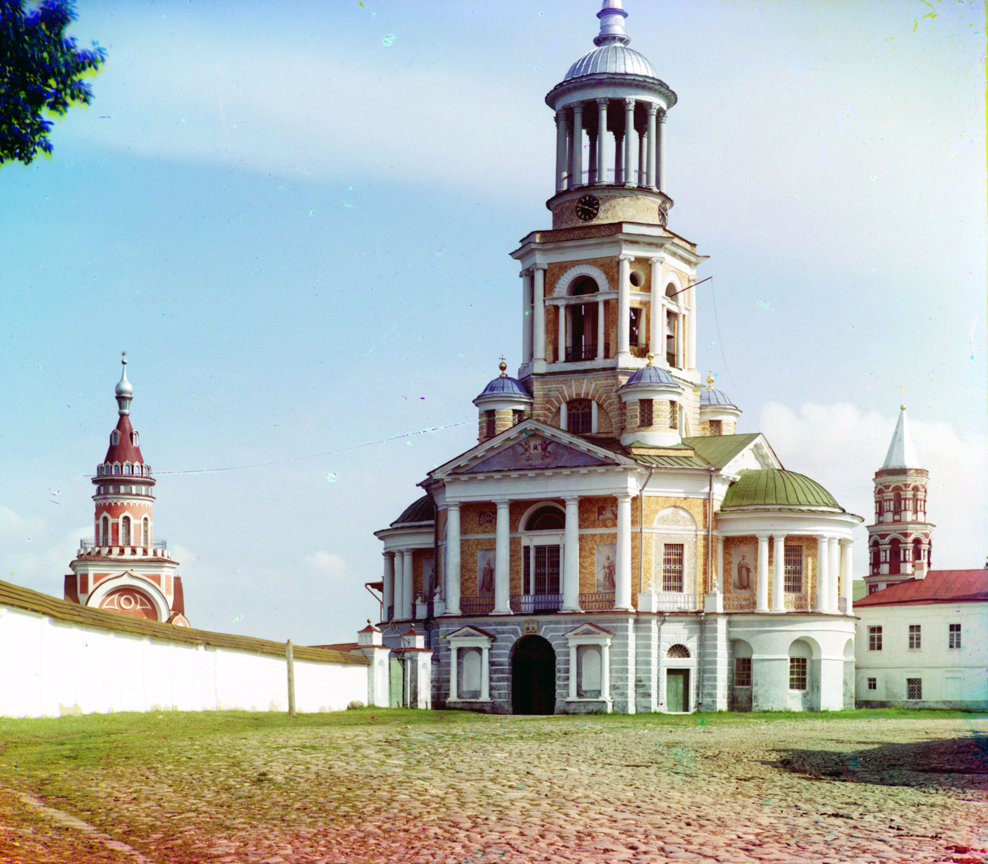 Boris-Gleb Monastery, Torzhok. Arch. N. A. Lvov